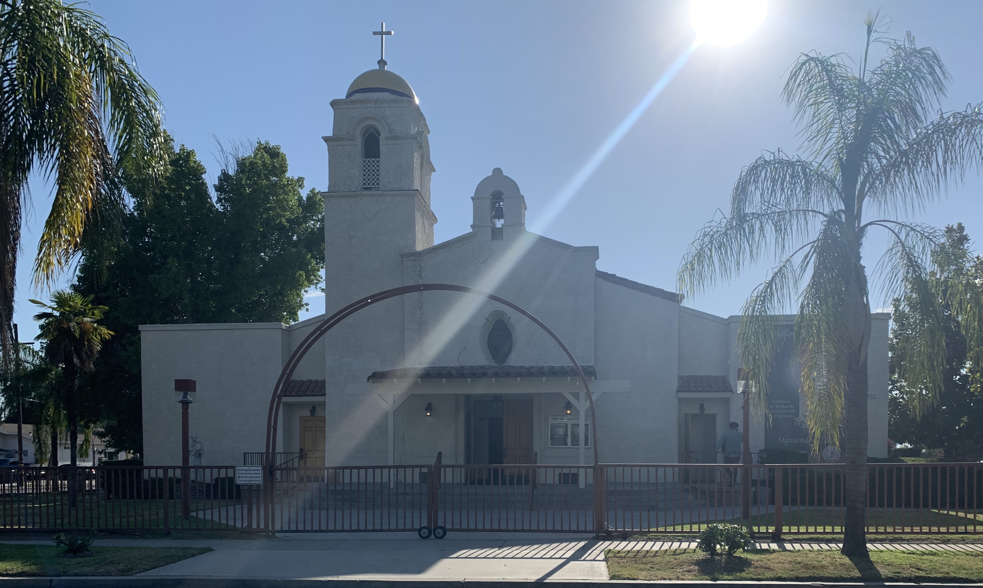 Holy Name of Jesus Columbia Street Location